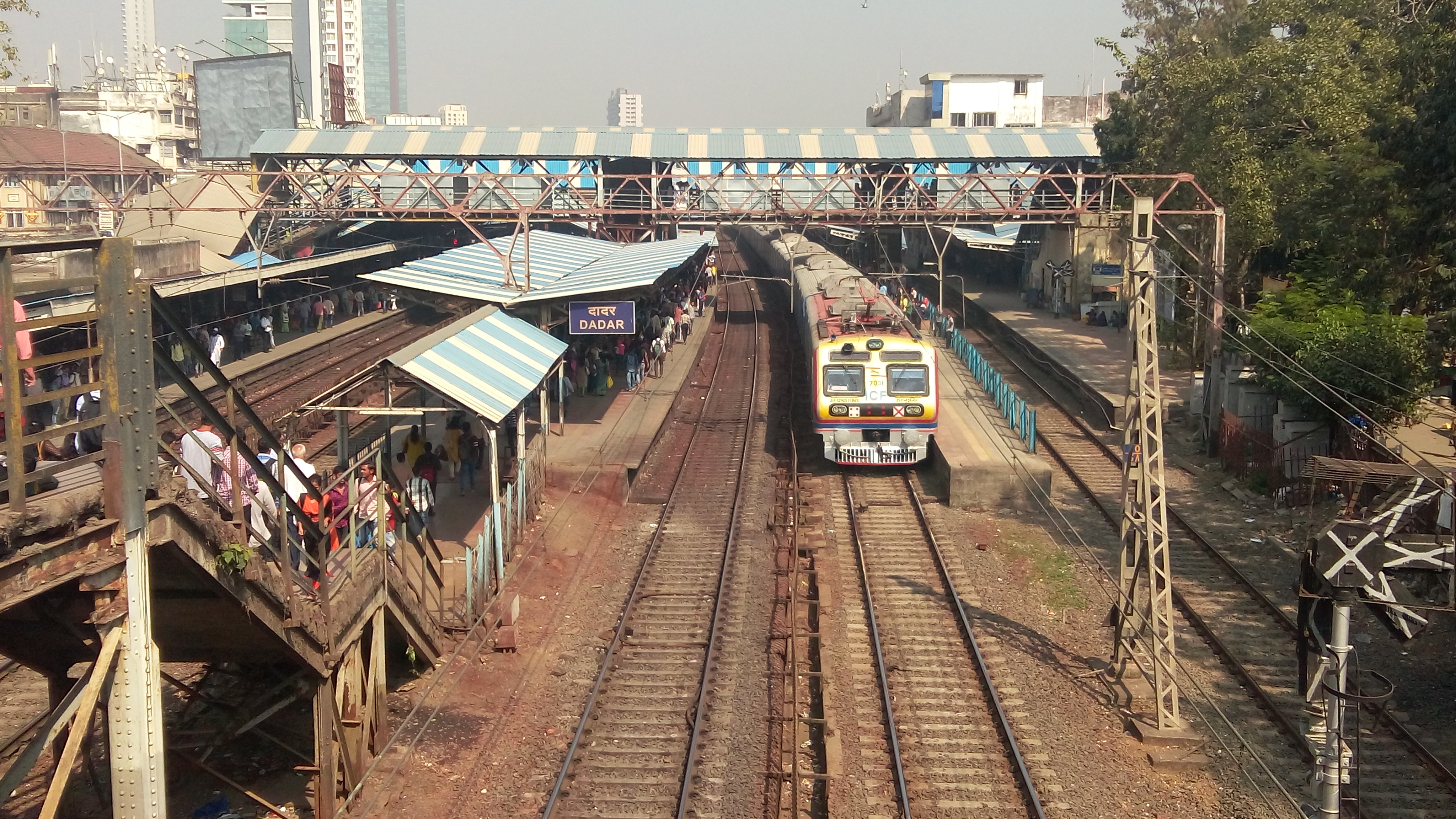 It's the New Mumbai Air-conditioned Local train at Dadar station